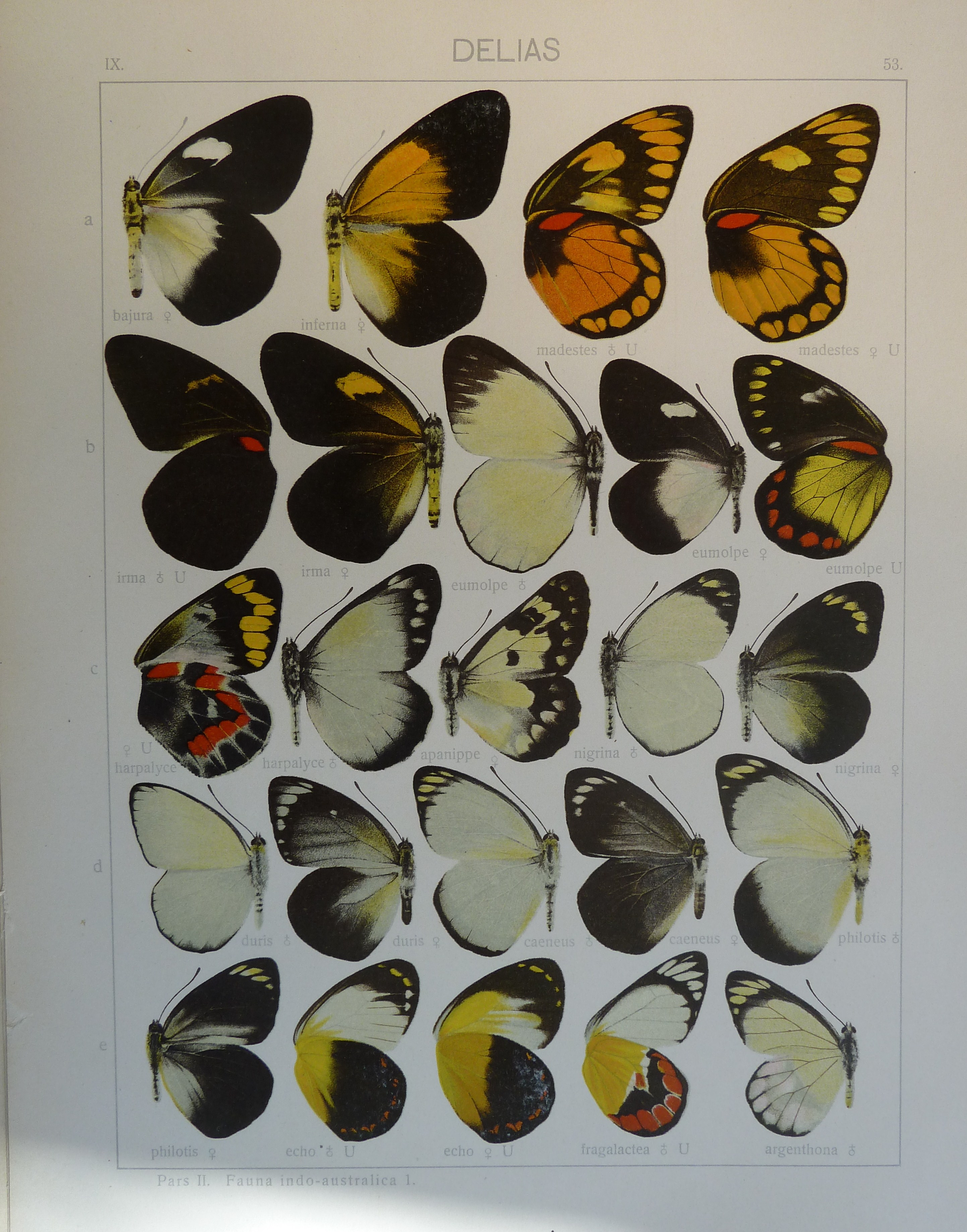 Adalbert Seitz Ed. Die Großschmetterlinge der Erde Band 9: Abt. 2, Die exotischen Großschmetterlinge, Die indo-australischen Tagfalter, [1927] text , 1197 Seiten 177 Tafeln Verlag Alfred Kernen, Stuttgart Taf 53 See The Global Lepidoptera Names Index for valid names bajura Boisduval, 1832 synonym for Delias aruna (Boisduval, 1832) Delias aruna inferna Butler, 1871 madestes lapsus Delias madetes (Godman & Salvin, 1878) Delias aruna irma Fruhstorfer, 1907 Delias eumolpe Grose-Smith 1889 Delias harpalyce Donovan, 1805 apanippe lapsus Delias aganippe (Donovan, 1805) Delias nigrina (Fabricius, 1775) Delias duris Hewitson 1861 Delias caeneus Linnaeus 1758 Delias caeneus philotis Wallace 1867 Delias isse echo Wallace 1867 fragalactea synonym for Delias argenthona Fabricius 1793 Delias argenthona argenthona (Fabricius, 1793)